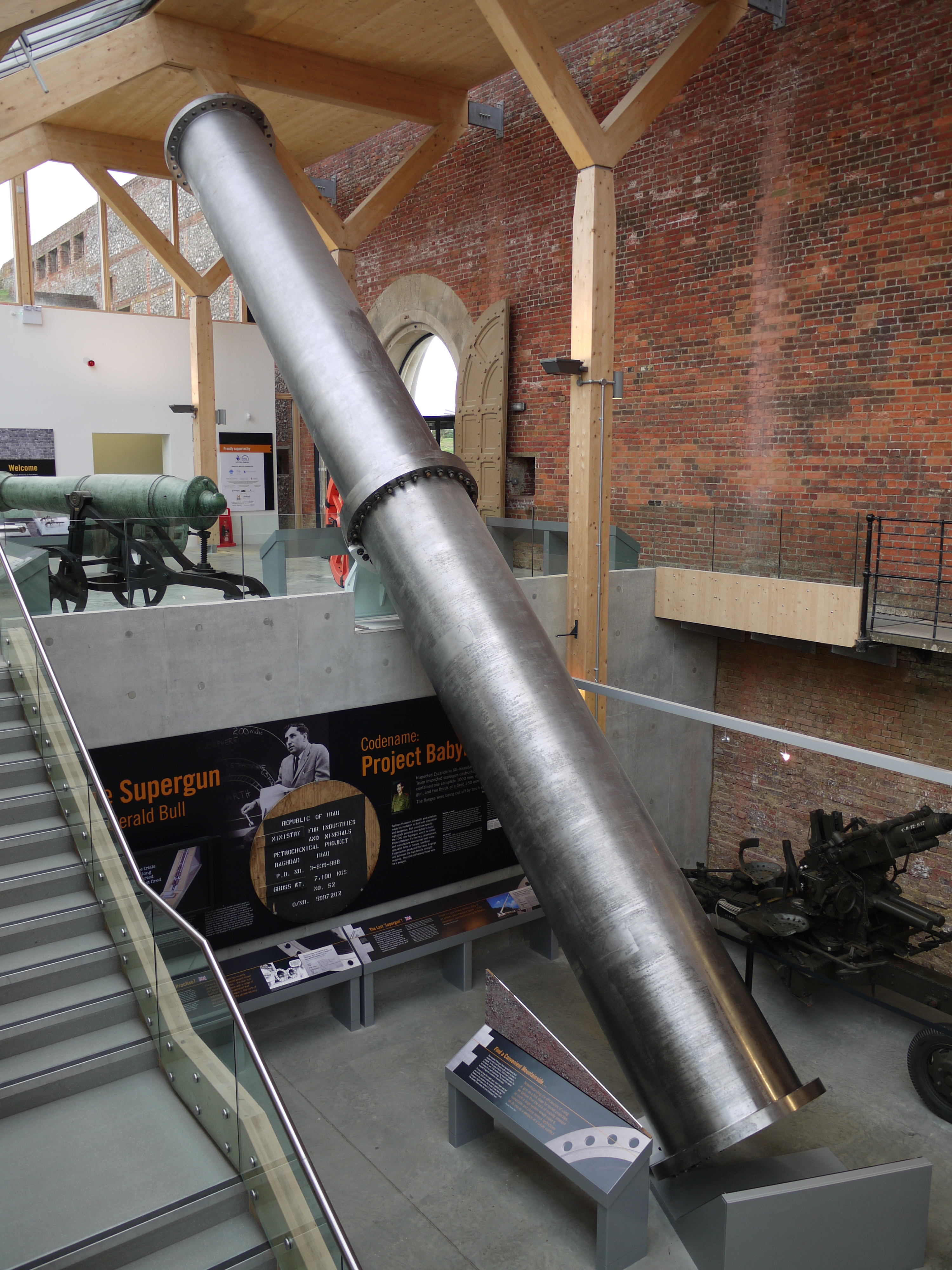 Photo of two parts of the Iraqi supergun bolted together. Note in the original design the two parts would have been 48 and 52 in line and thus would have had 3 bits between them.